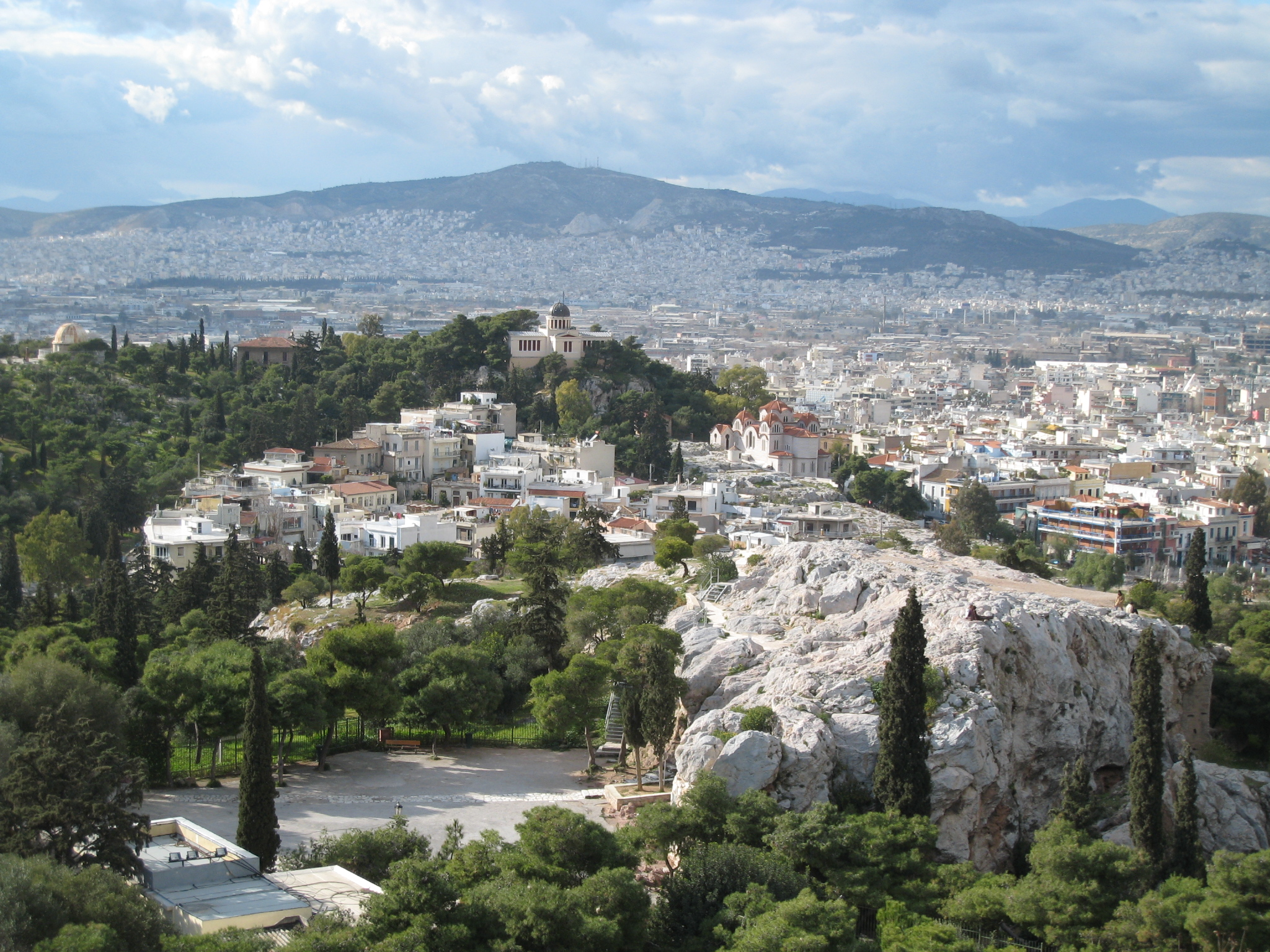 Athens, Greece view 2007 from Acropolis. National Observatory and hill of Muses